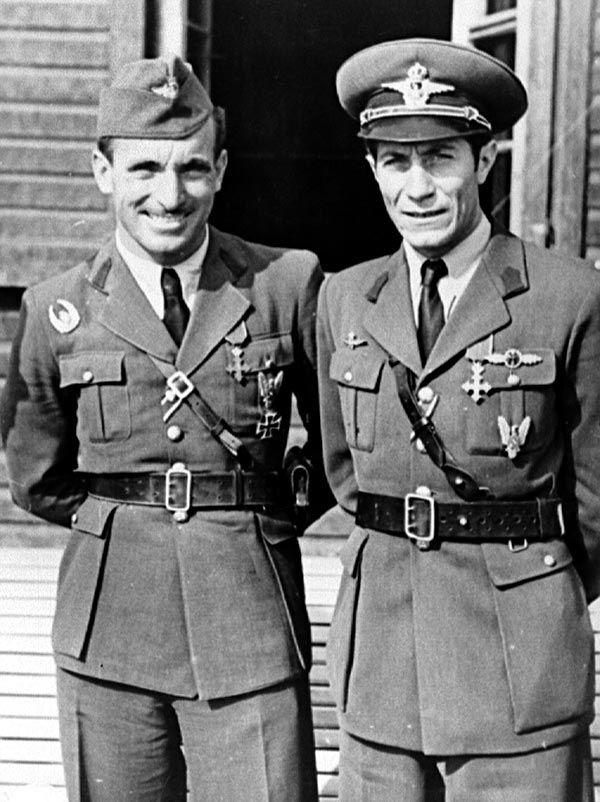 Alexandru Serbanescu and Ion Dicezare